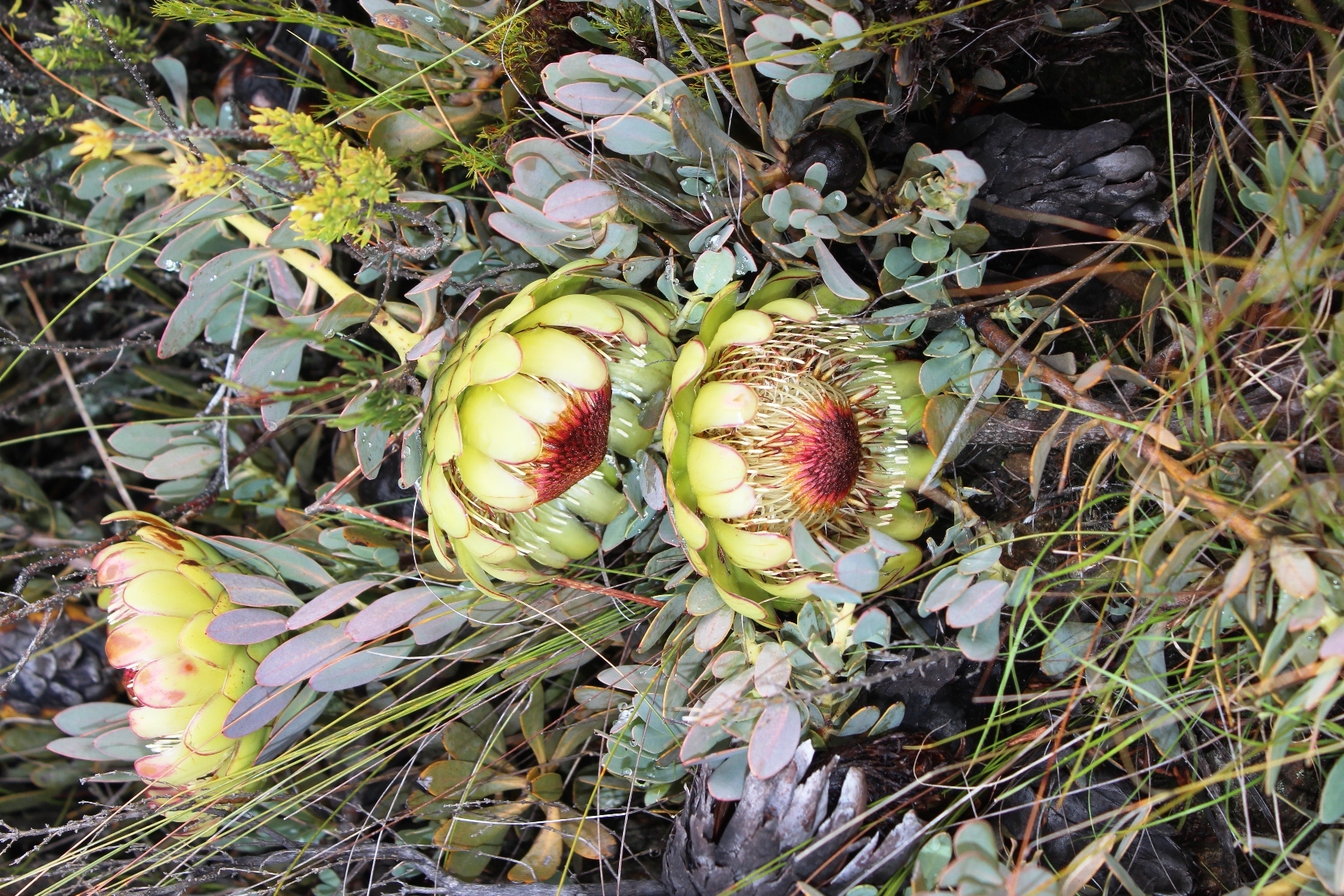 Scarlet Sugarbush (Protea effusa)